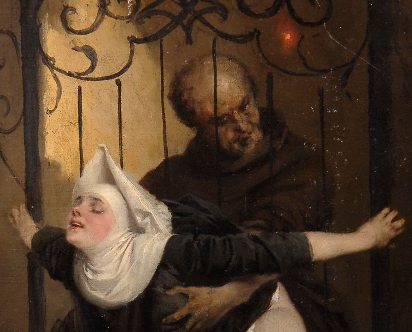 The Sin (cropped) - Heinrich Lossow, 1791